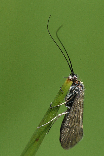 Picture taken in Commanster, Belgian High Ardennes . Species: Hydropsyche pellucidula